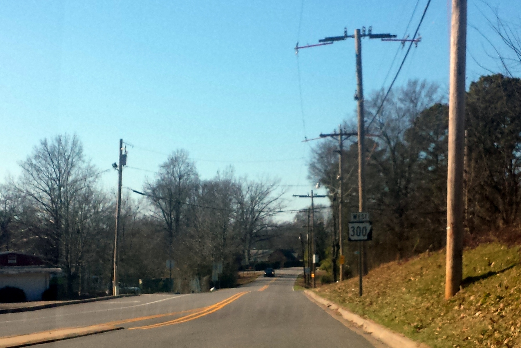 Highway 300 begins its routing west as Colonel Glenn from Highway 5 in Little Rock, AR